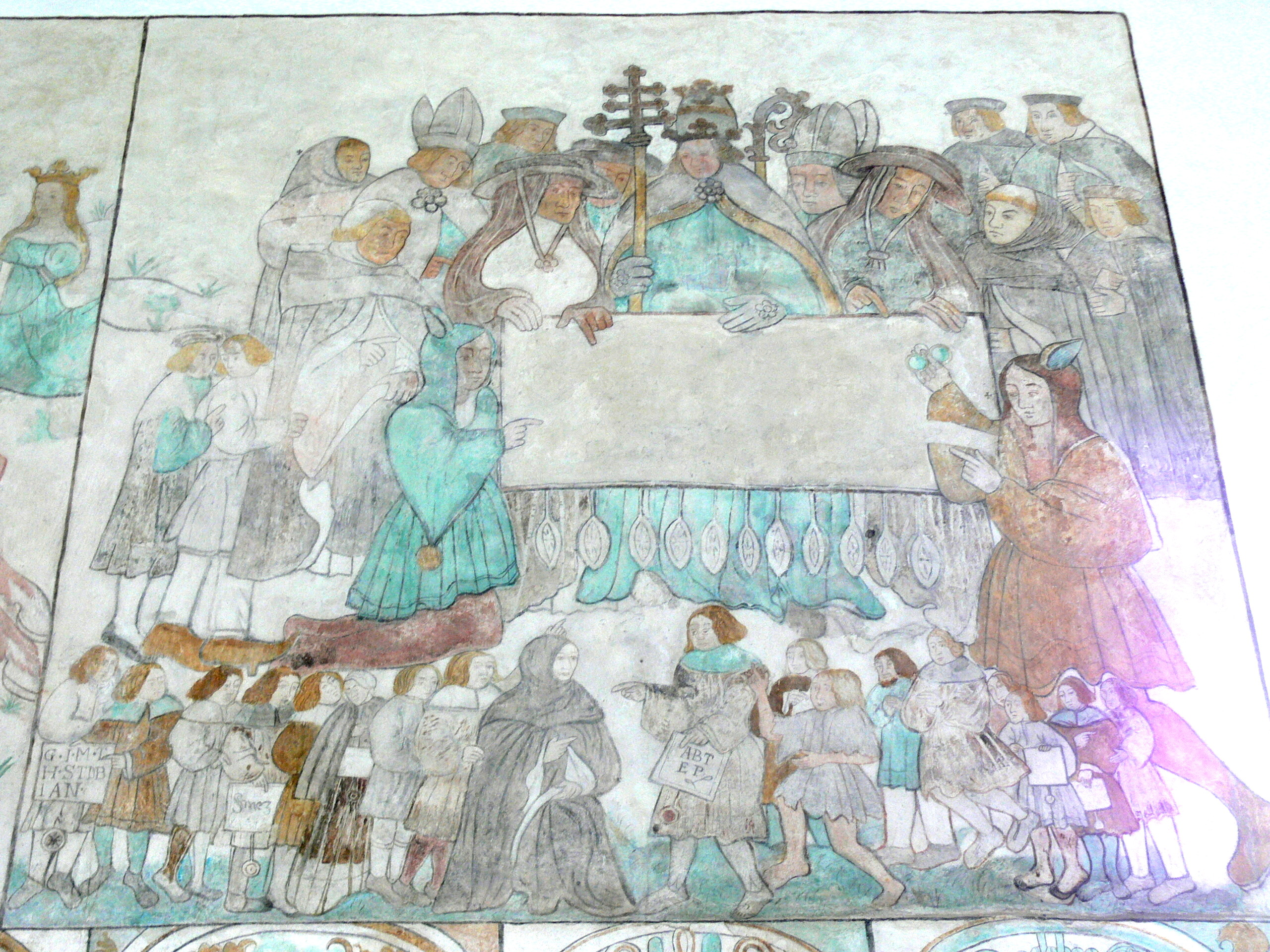 Brøns parish church. Protestant, anti-catholic painting: The pope and the cardinals are standing around an empty document ( bulla ), symbolizing the "empty" words of the pope. Beneath a protestant preacher followed by farmers is discussing with a catholic monk followed by urban citizens. The paintings is following the example of an anti-catholic engraving by Sebald Beham ( 1525 ).